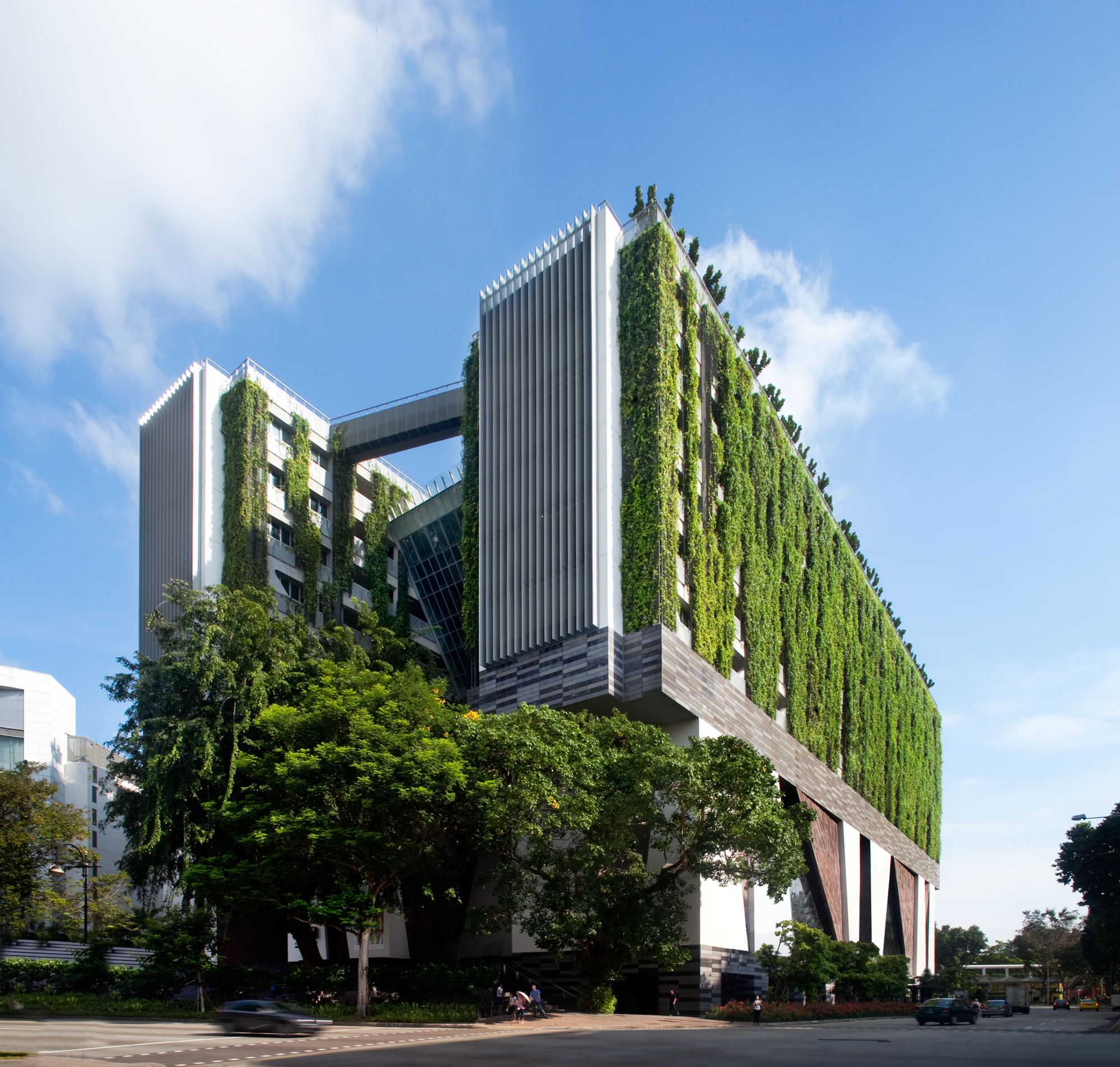 School of the Arts, Singapore.